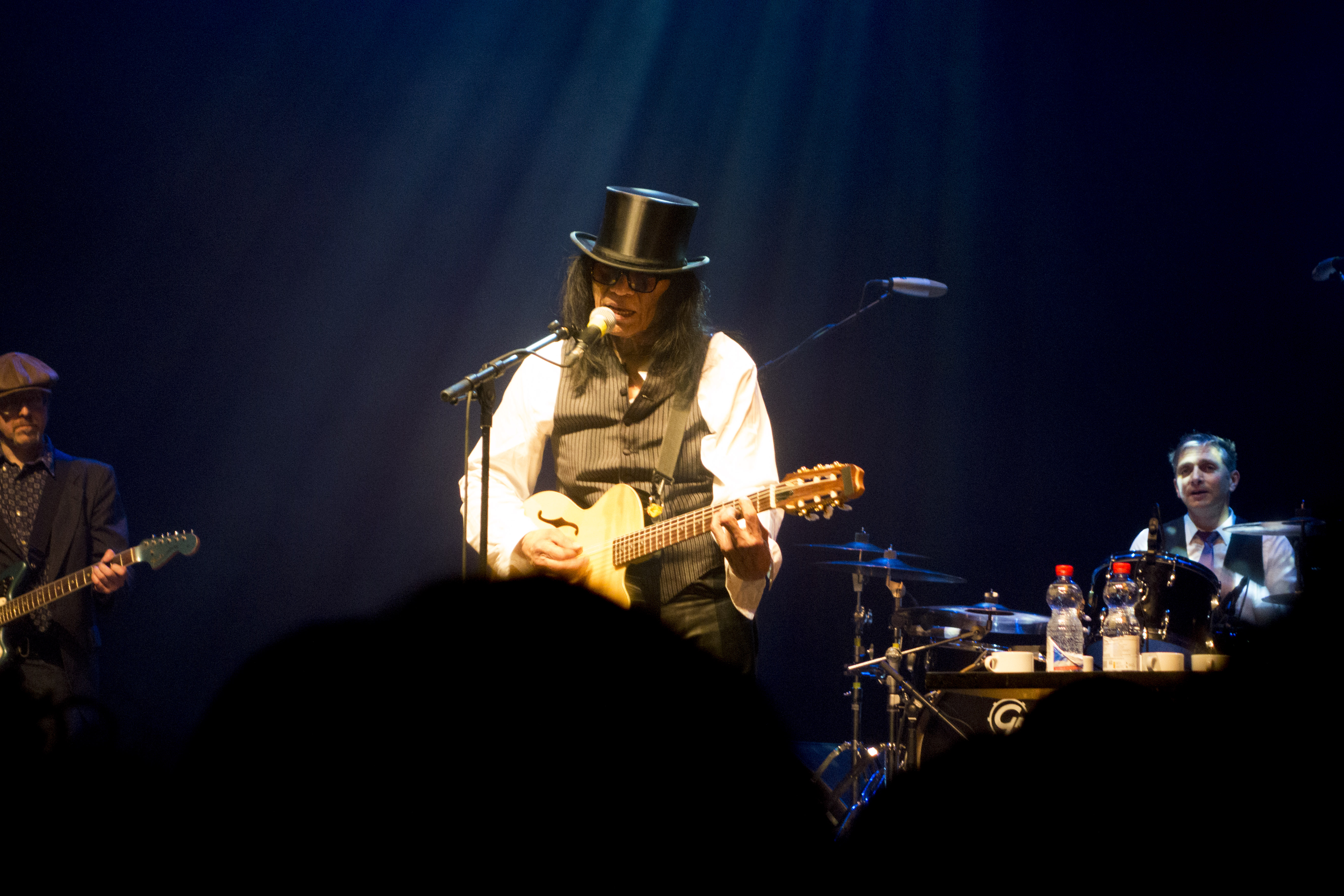 Sixto Rodriguez Live in Zürich. March 2014